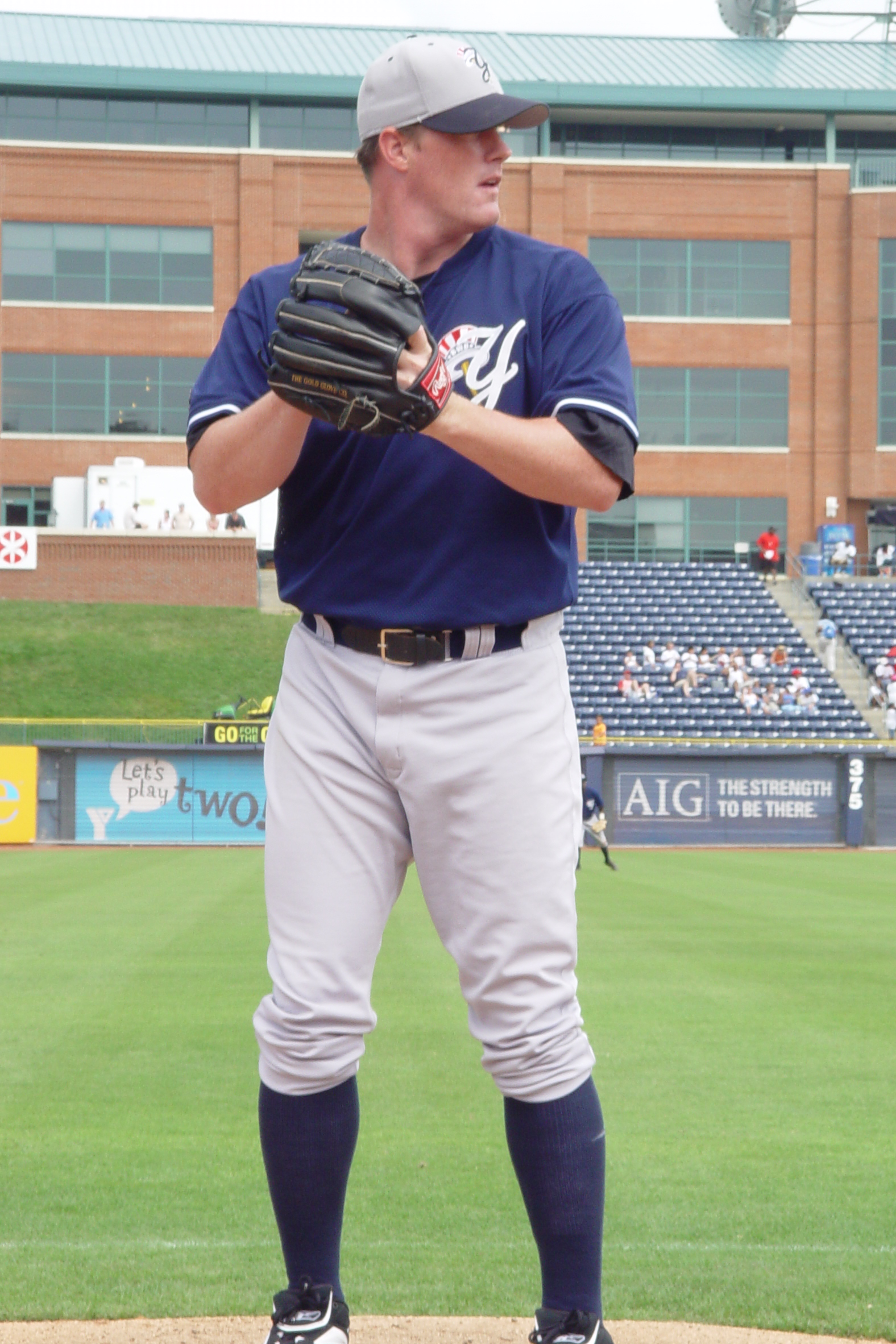 Picture taken by Brad E. Williams (uploader) on June 20, 2007 at Durham Bulls Athletic Park in Durham, North Carolina. 15:38, 17 July 2007 . . Brad E. Williams . . 1,576×2,364 (4.13 MB)